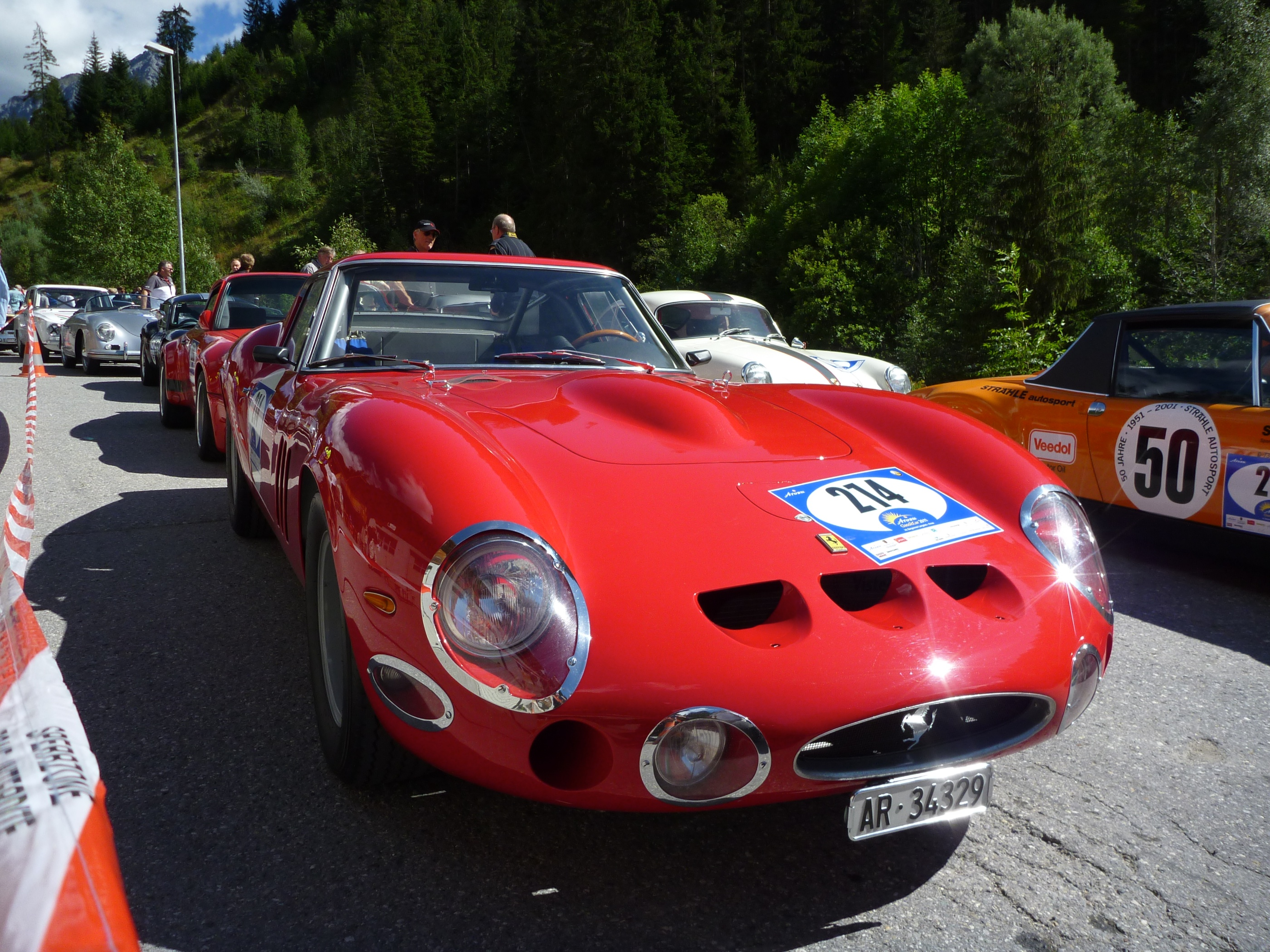 A Ferrari 330 GTO at Arosa ClassicCar race. This a 330 GT (serial #6291), rebodies as a 330 GTO in 1984 (i.e. it is still a Ferrari).[1]